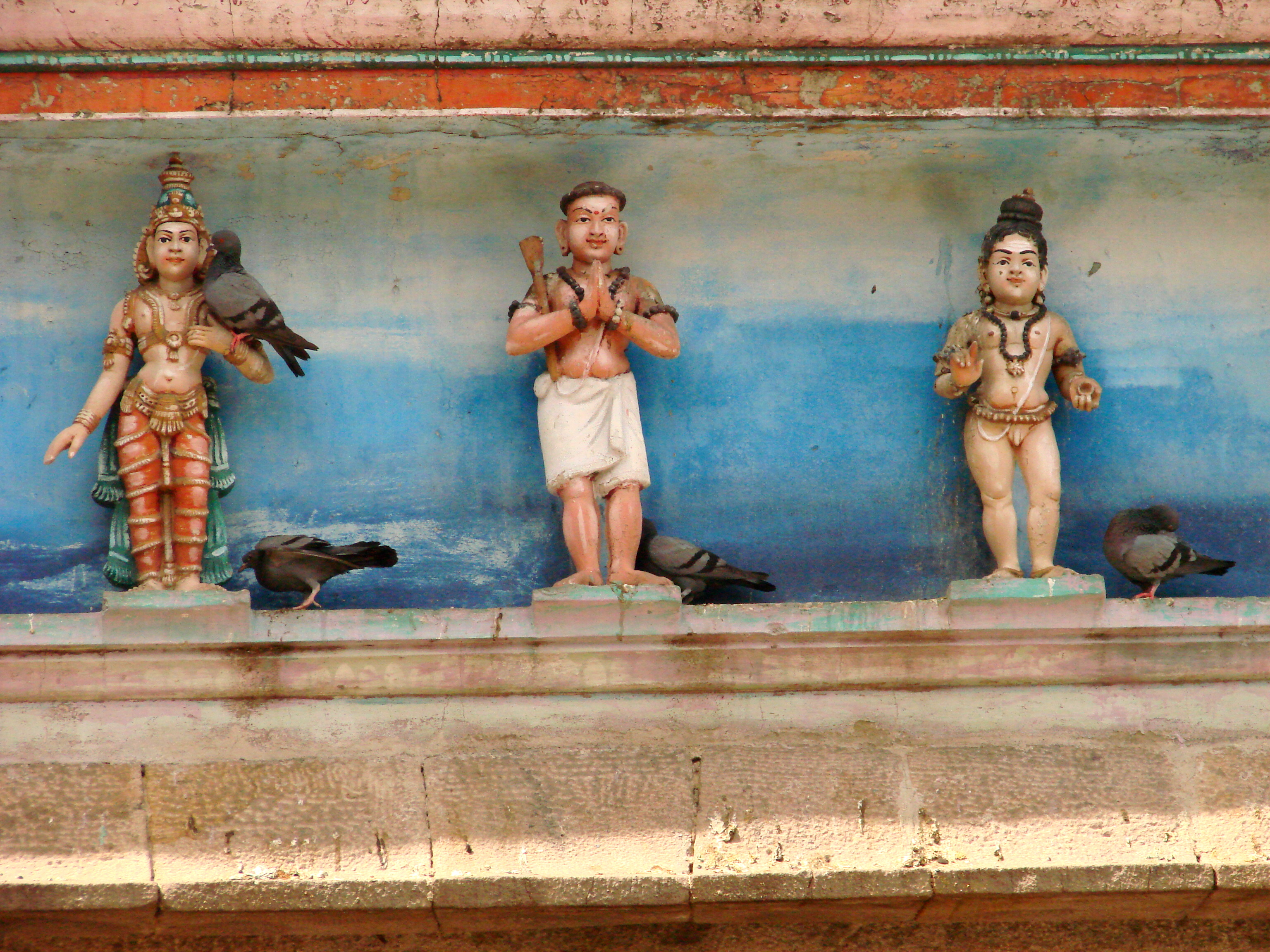 Temple sculptures with pigeons, Sri Meenakshi-Sundareshwarar Temple, Madurai, India. June 2008.